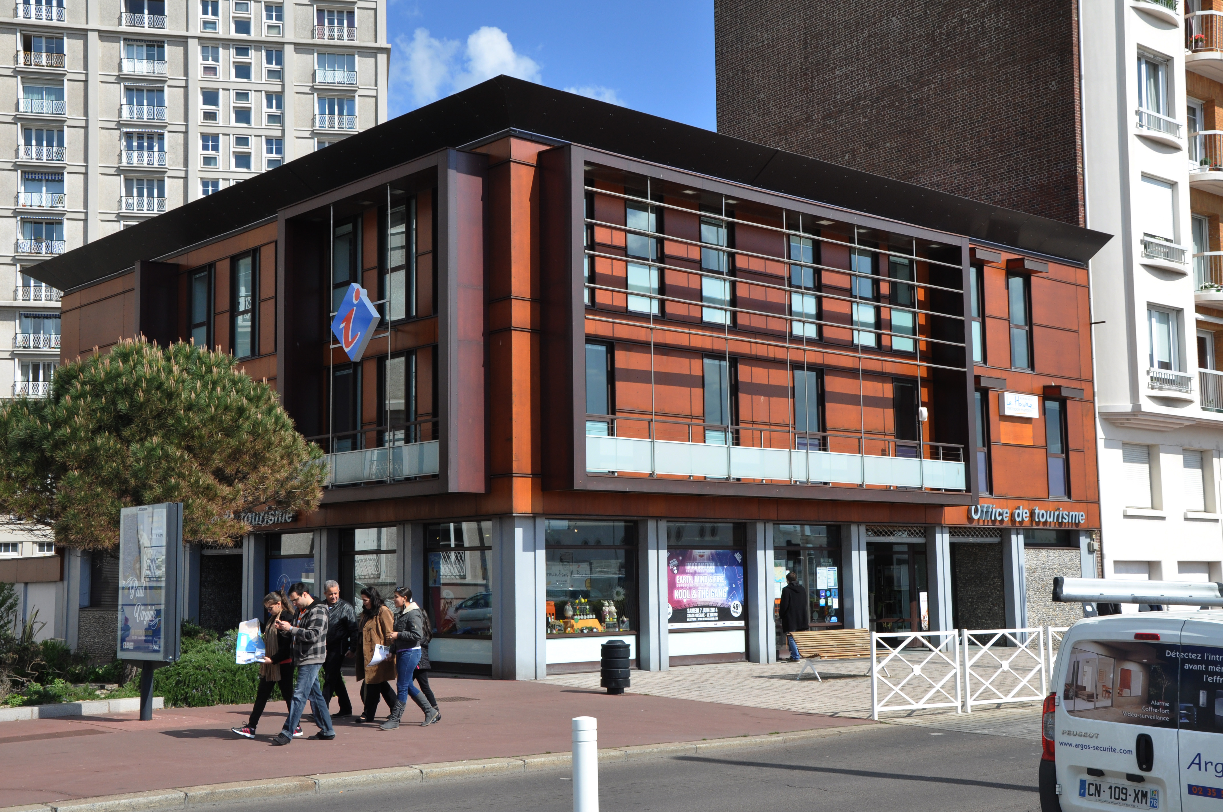 Le Havre (France, Normandy)